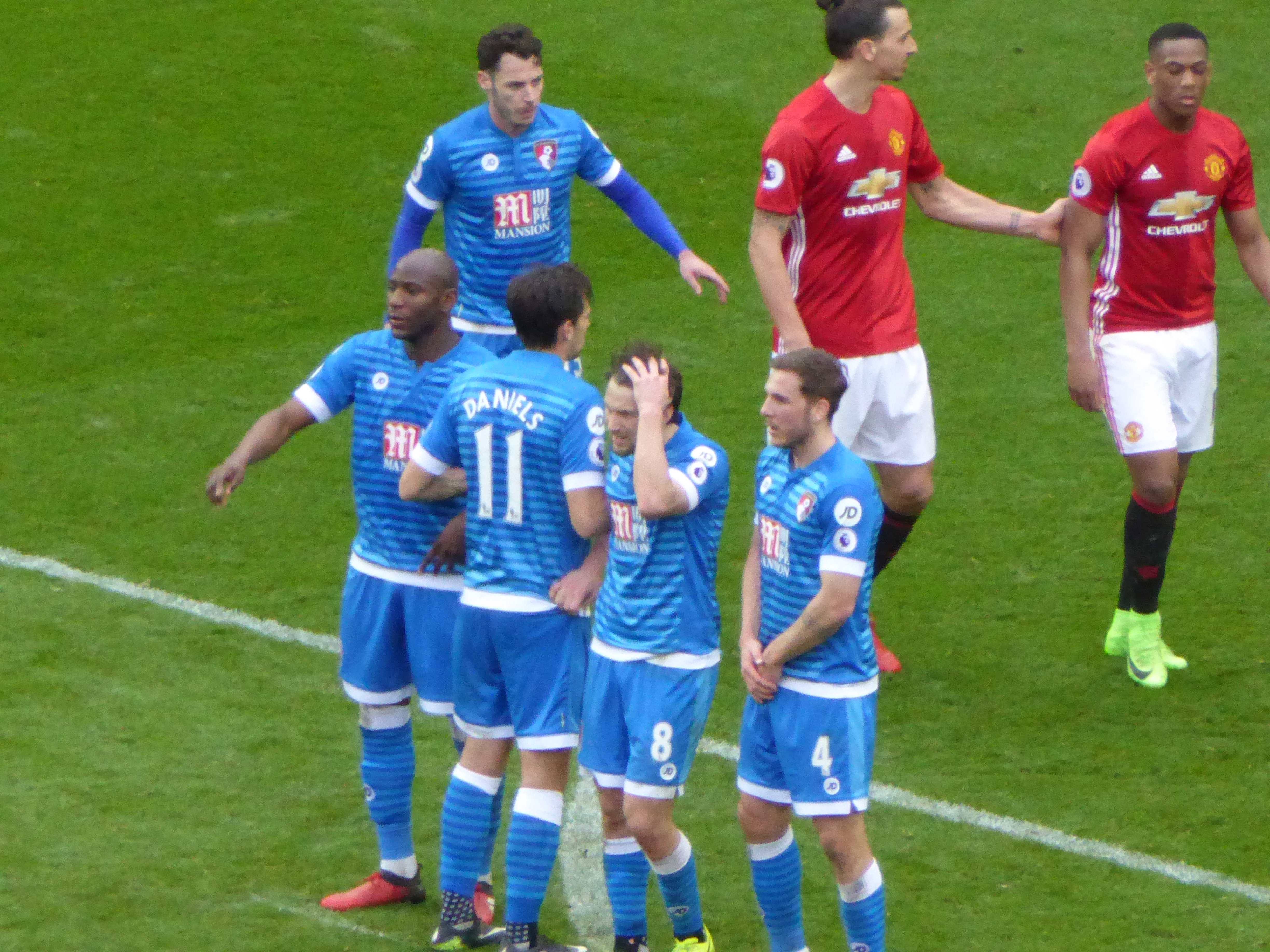 Manchester United v AFC Bournemouth (1-1), Premier League, Old Trafford, Manchester, 4 March 2017